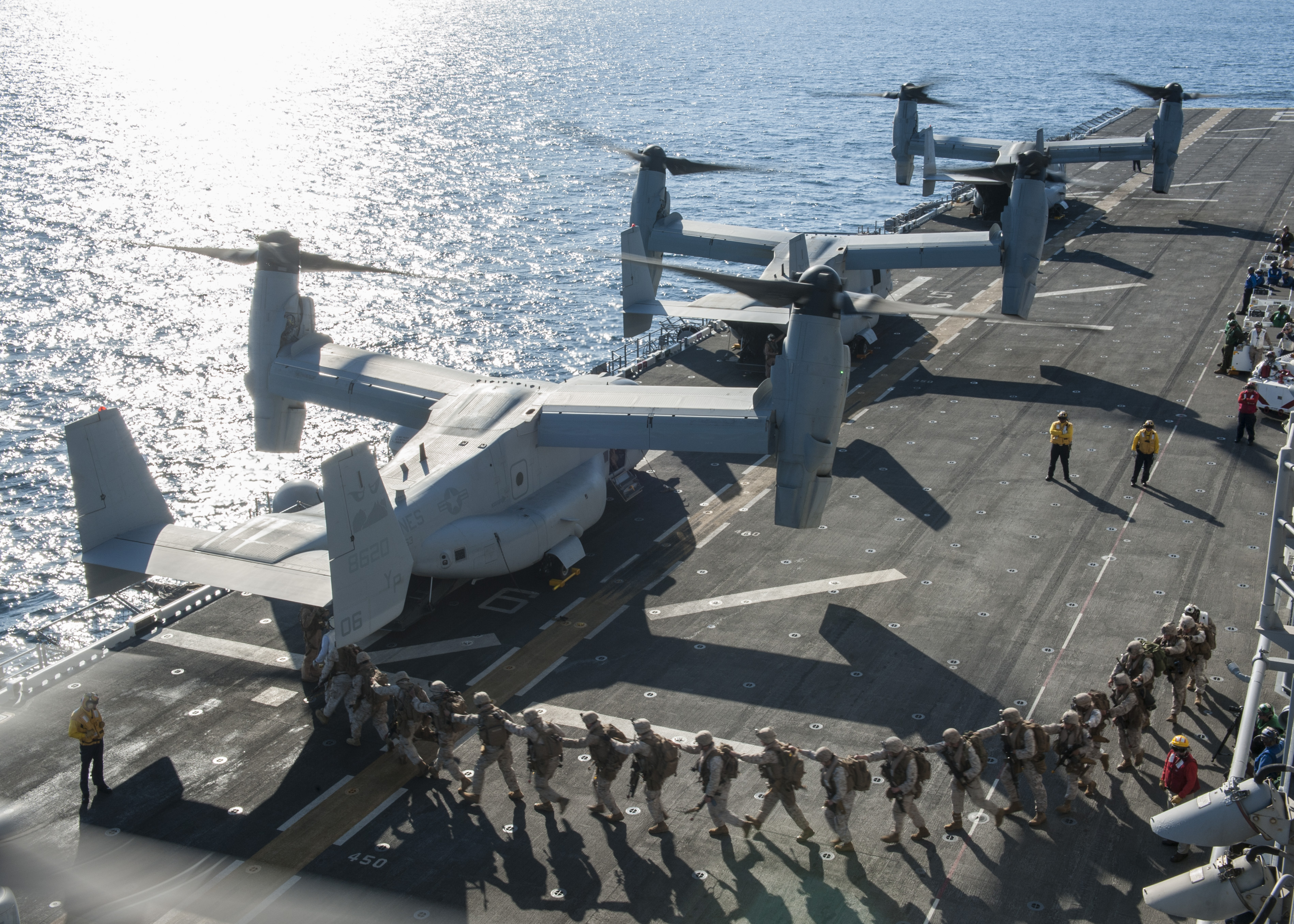 PACIFIC OCEAN (July 17, 2016) – Marines assigned to the 11th Marine Expeditionary Unit (MEU) board an MV-22 Osprey, assigned to Marine Medium Tiltrotor Squadron (VMM) 163 (Reinforced) on the flight deck of the amphibious assault ship USS Makin Island (LHD 8). Makin Island is conducting integrated training with Amphibious Squadron Five and the 11th MEU off the coast of southern California in preparation for an upcoming deployment. (U.S. Navy photo by Mass Communication Specialist Seaman Devin M. Langer/Released) 160717-N-LI768-334 Join the conversation: navylive.dodlive.mil